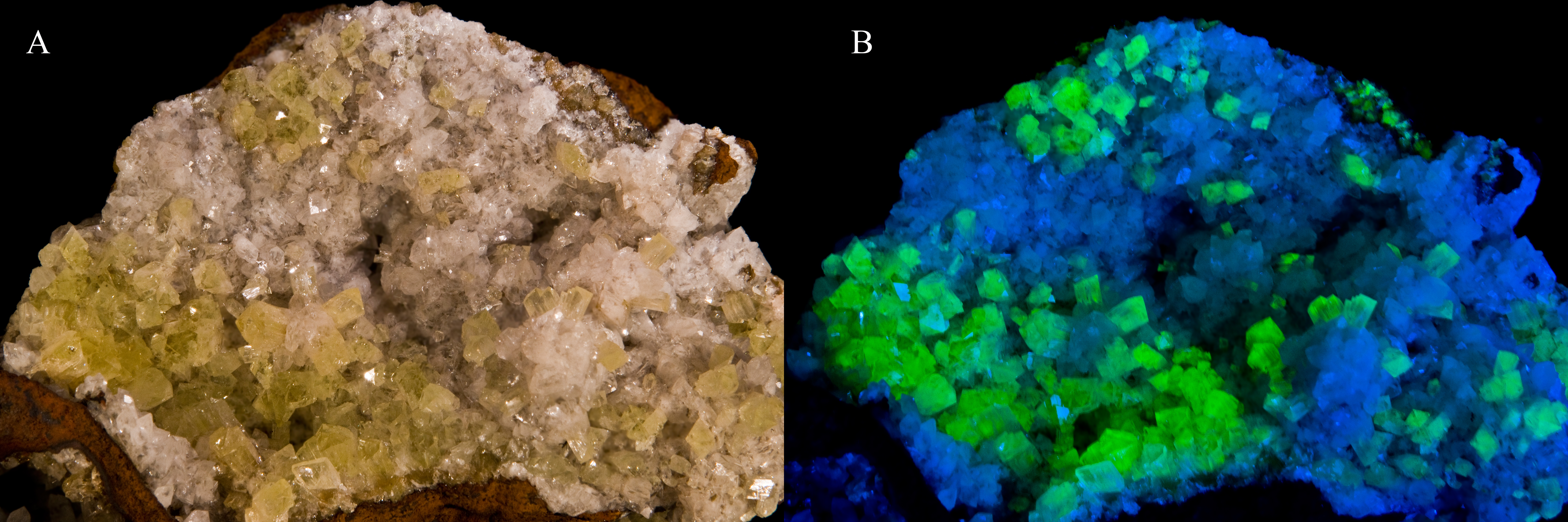 Adamite with Hemimorphite Locality :Ojuela Mine, Mapimí, Mun. de Mapimí, Durango, Mexico (11x7cm) - A:Daylight B:Ultraviolet light